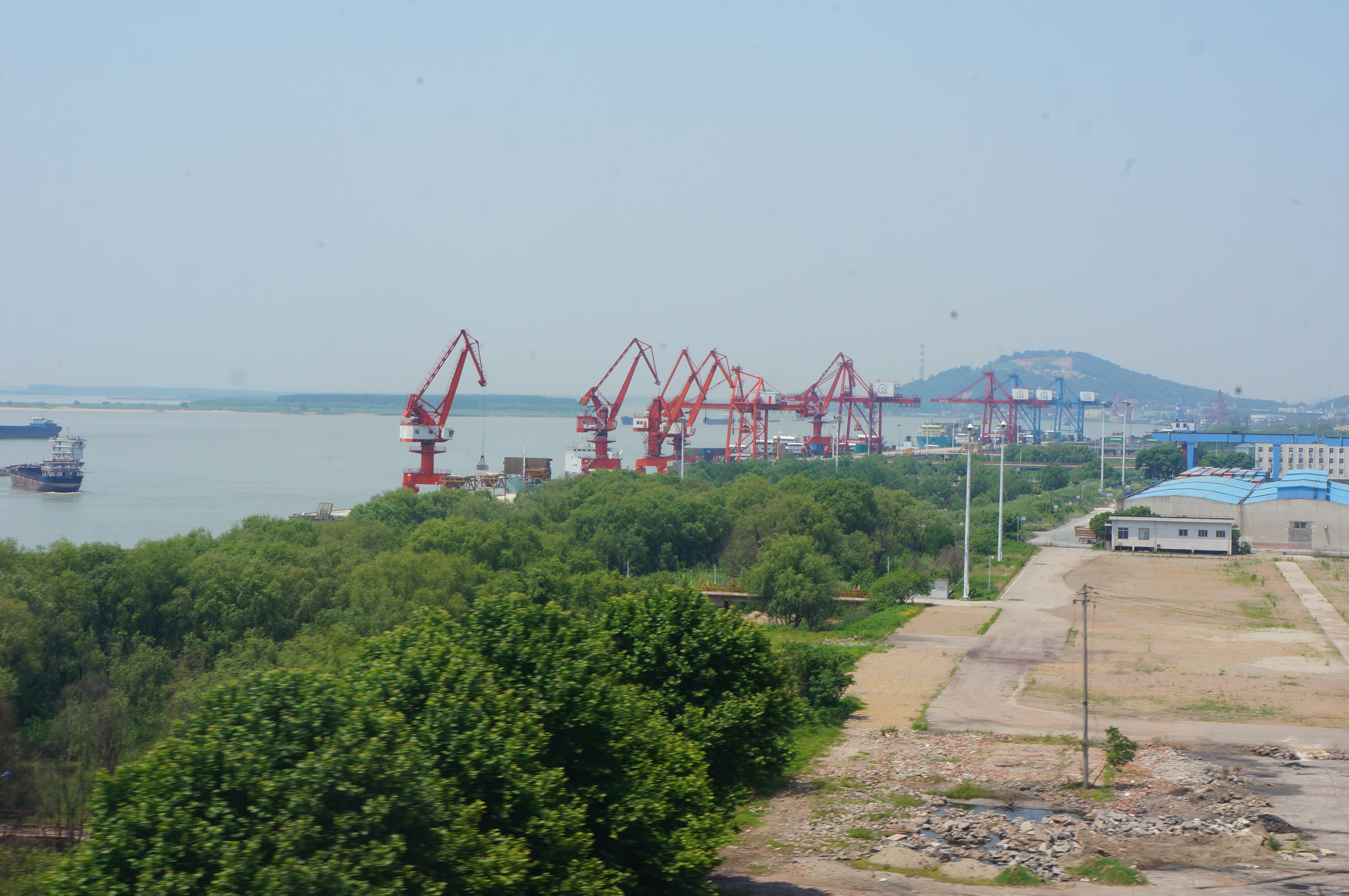 201705 Container Cranes at Wuhu Port